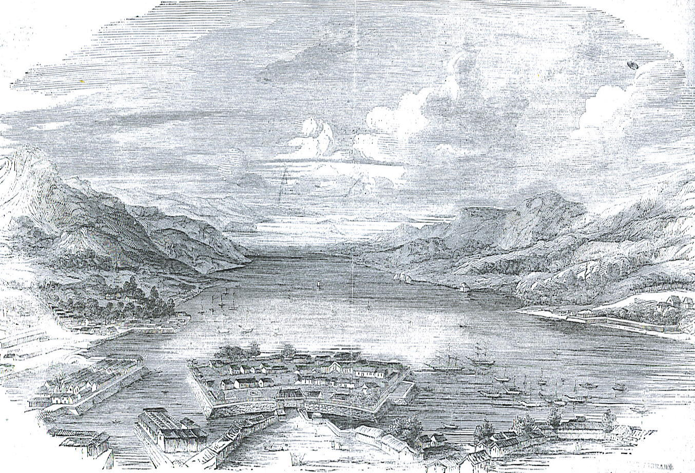 This image from the Illustrated London News (March 26, 1853) comes from the Picture Collection of the New York Public Library.